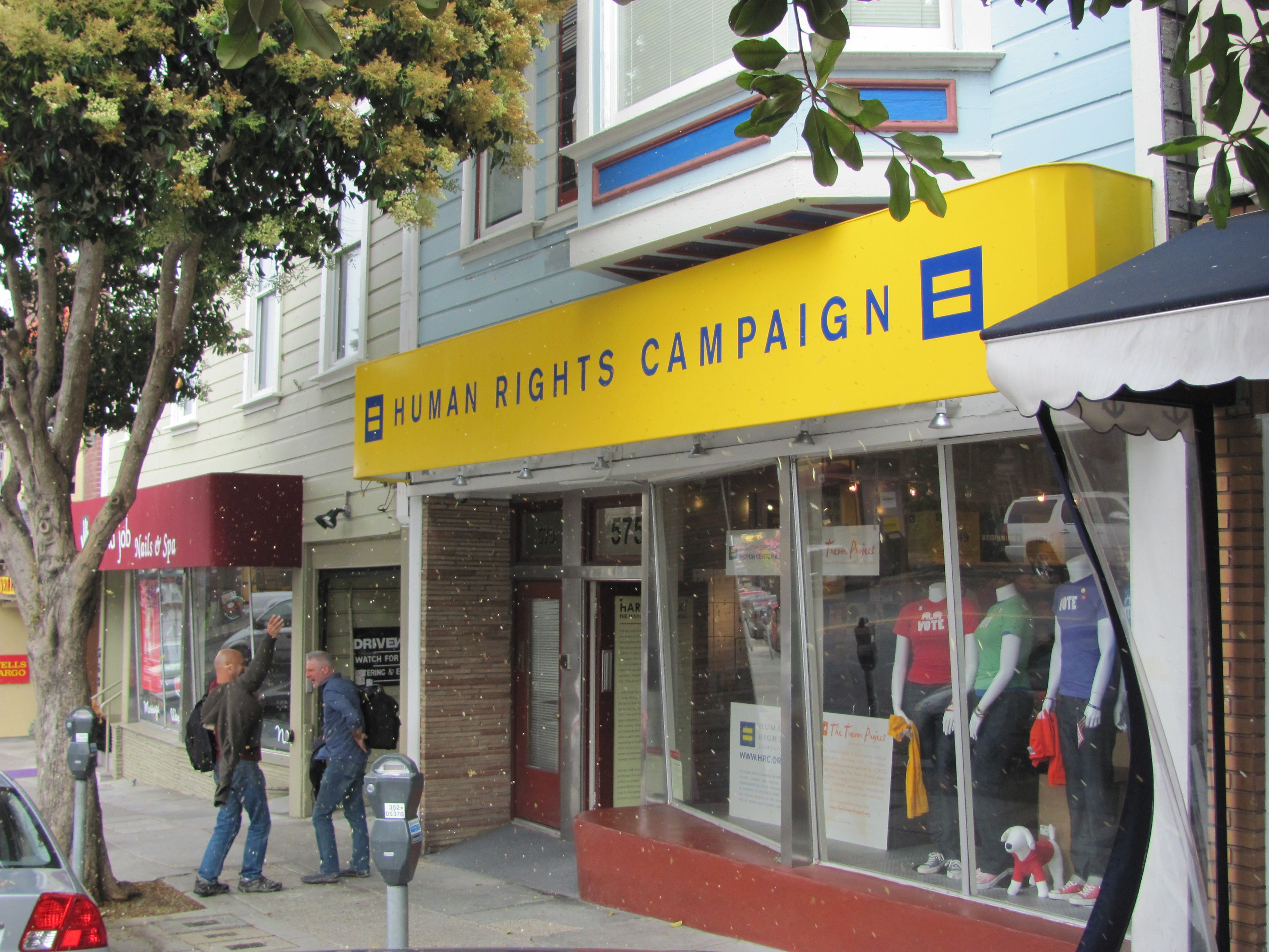 Office of Human Rights Campaign, on 575 Castro Street in San Francisco, formerly Castro Camera photo-shop of Harvey Milk